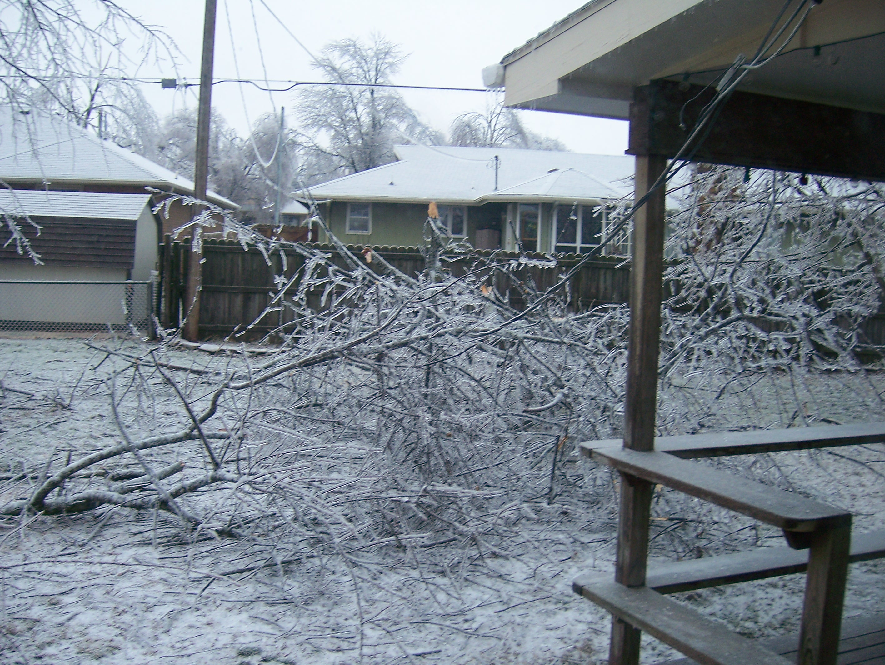 Fallen branches in my backyard due to weight of ice. Note downed powerline. (January 2007 North American ice storm)